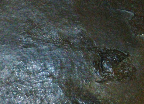 Fossil of a coelacanth, an extinct fish-- Took the photo at Museo dei Fossili di Besano